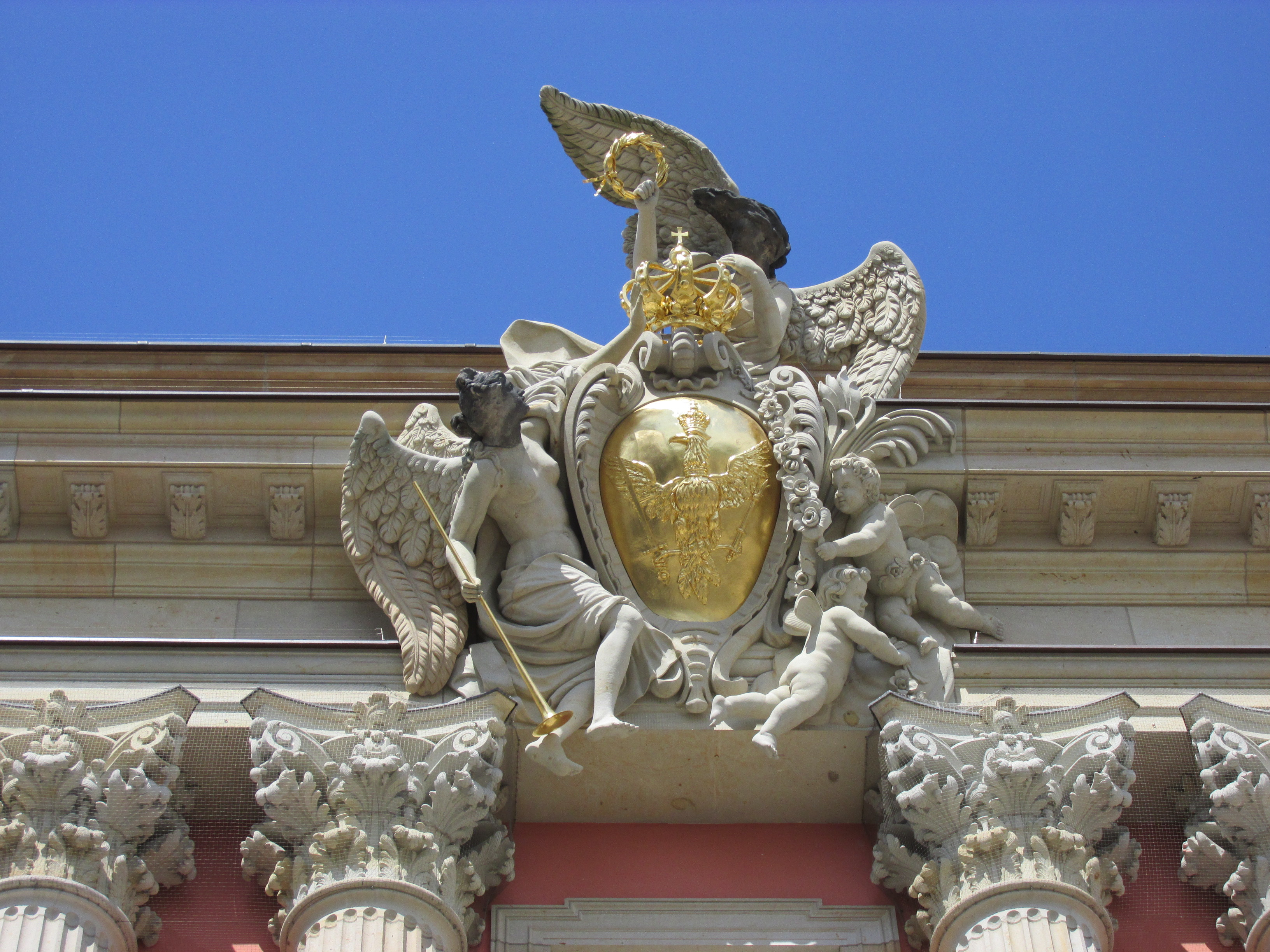 Closeup of the imagery atop City Palace, Potsdam.